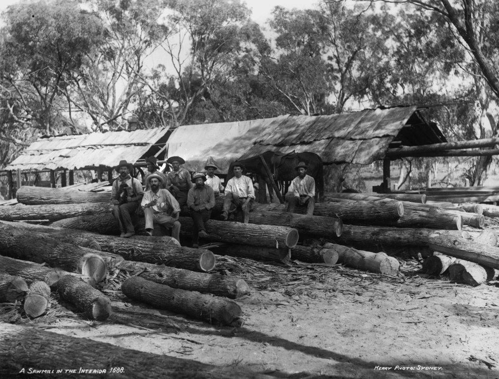 'Rural Life' Pictures from The Powerhouse Museum